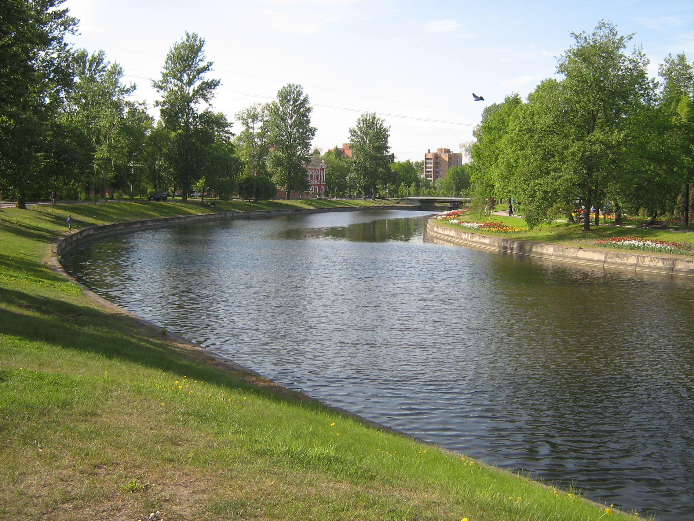 Kolpino (Russia)